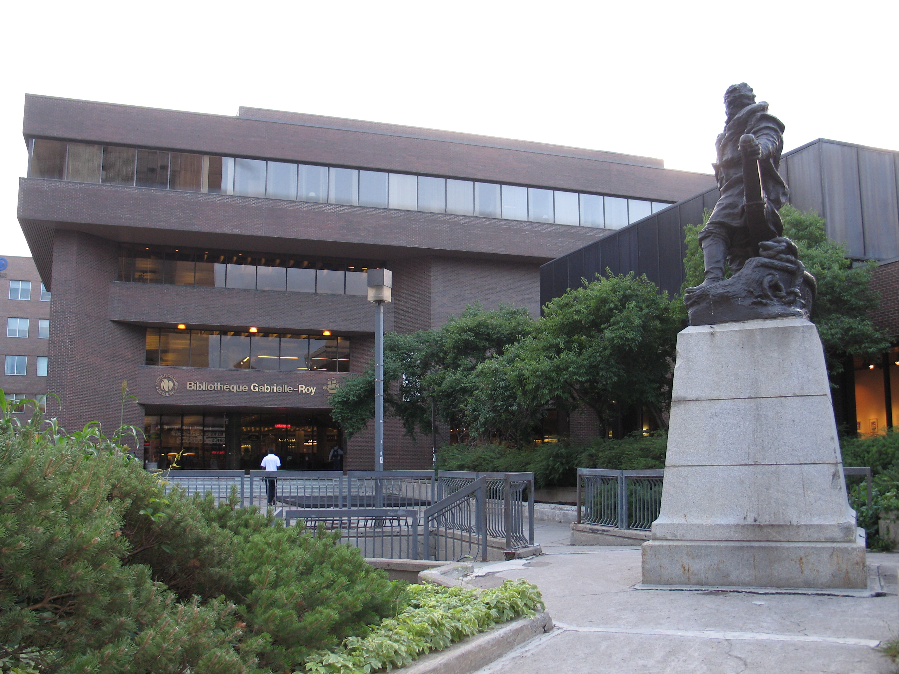 The Gabrielle-Roy public library and the Jacques-Cartier Square, in the Saint-Roch part of Quebec City.